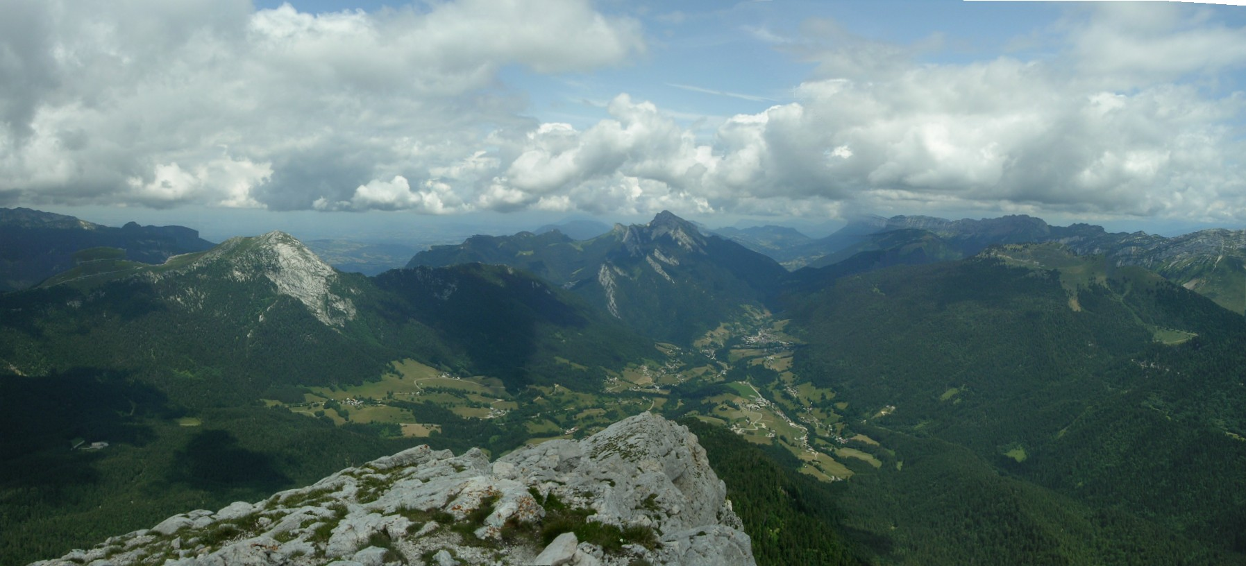 my own photograph